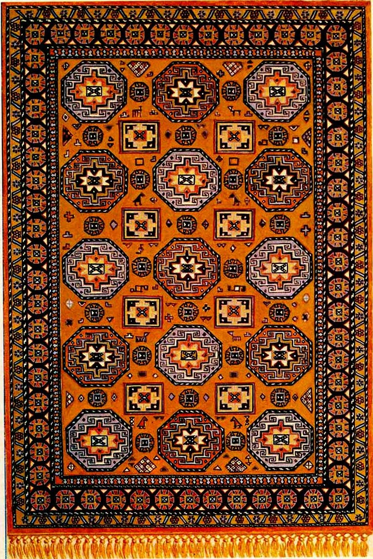 Mughan rug, Karabakh school, XIX c